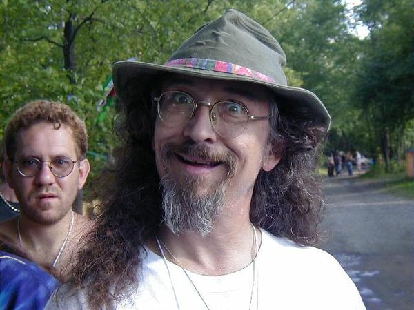 This is a photo of Ivan Stang.